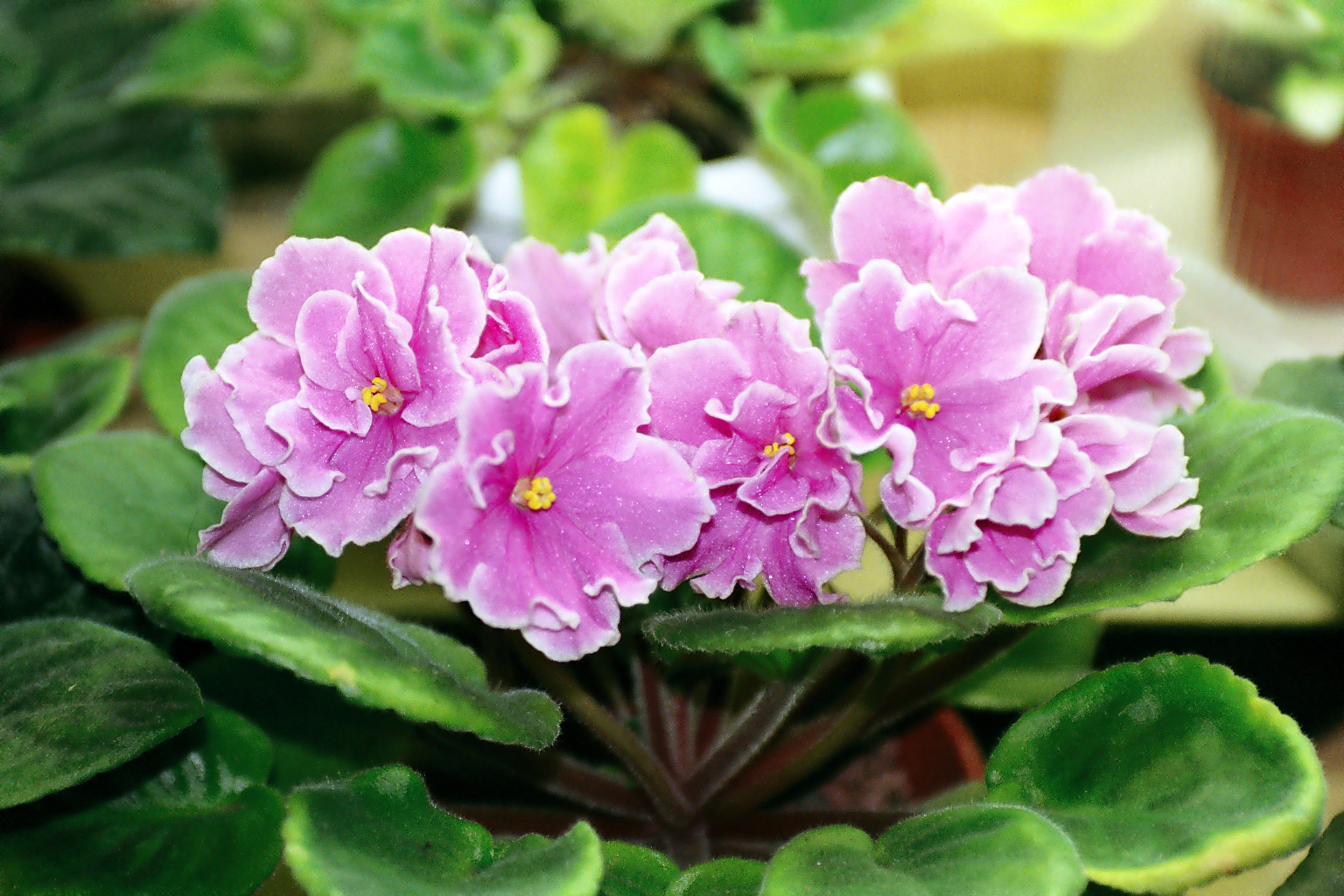 Saintpaulia ionantha 'Pink Amiss'